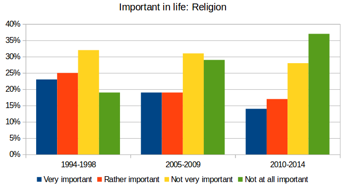 World Values Survey timeseries V9 Important in life: Religion (Australia)